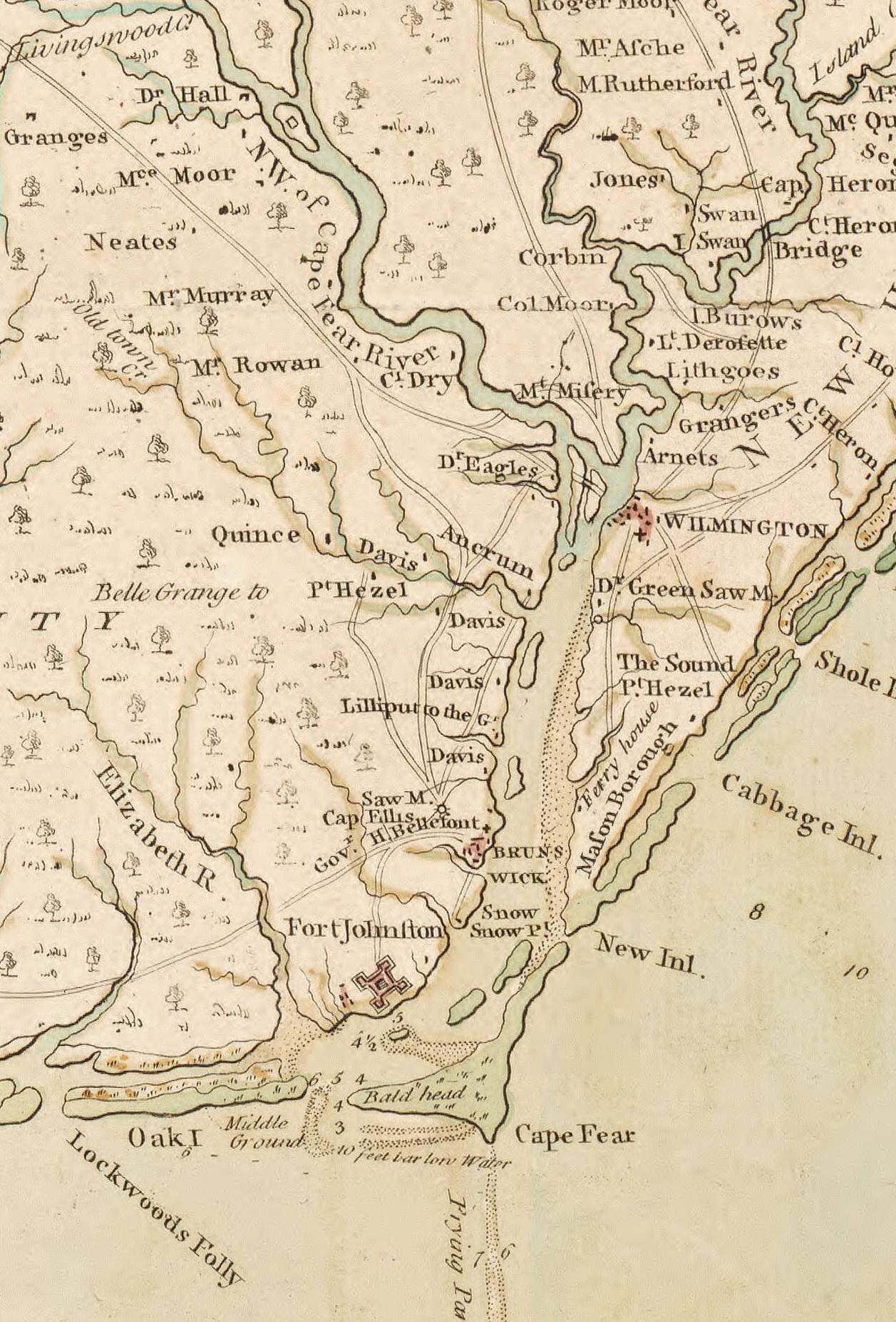 An excerpt of John Collet's 1770 map of North Carolina depicting the mouth of the Cape Fear river, including Wilmington, Brunswick, and Fort Johnston